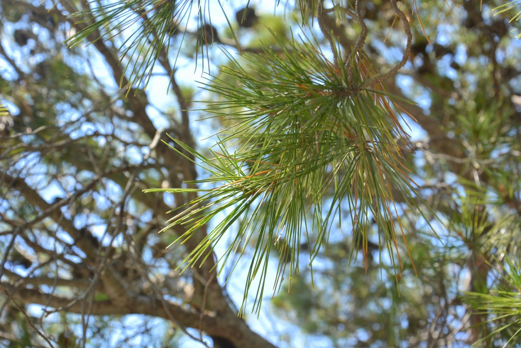 View from the inside of the Parc Boukornine.